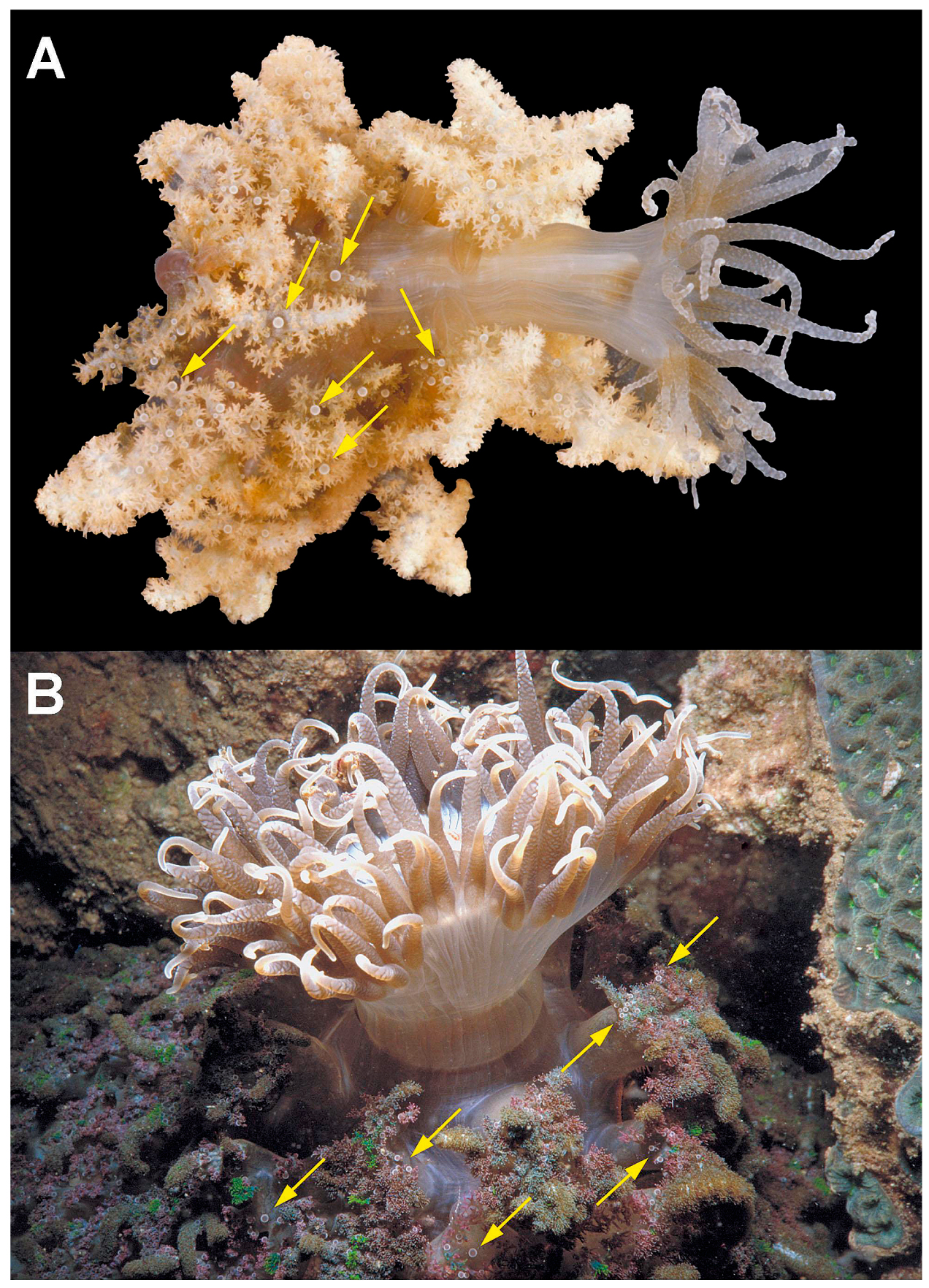 Phyllodiscus semoni at South Sulawesi. Extended tentacles and pseudotentacles with vesicles (arrows) in a branched morphotype (A) and a smooth disc (B), West side Bone Baku reef, Spermonde Archipelago, May 1997.